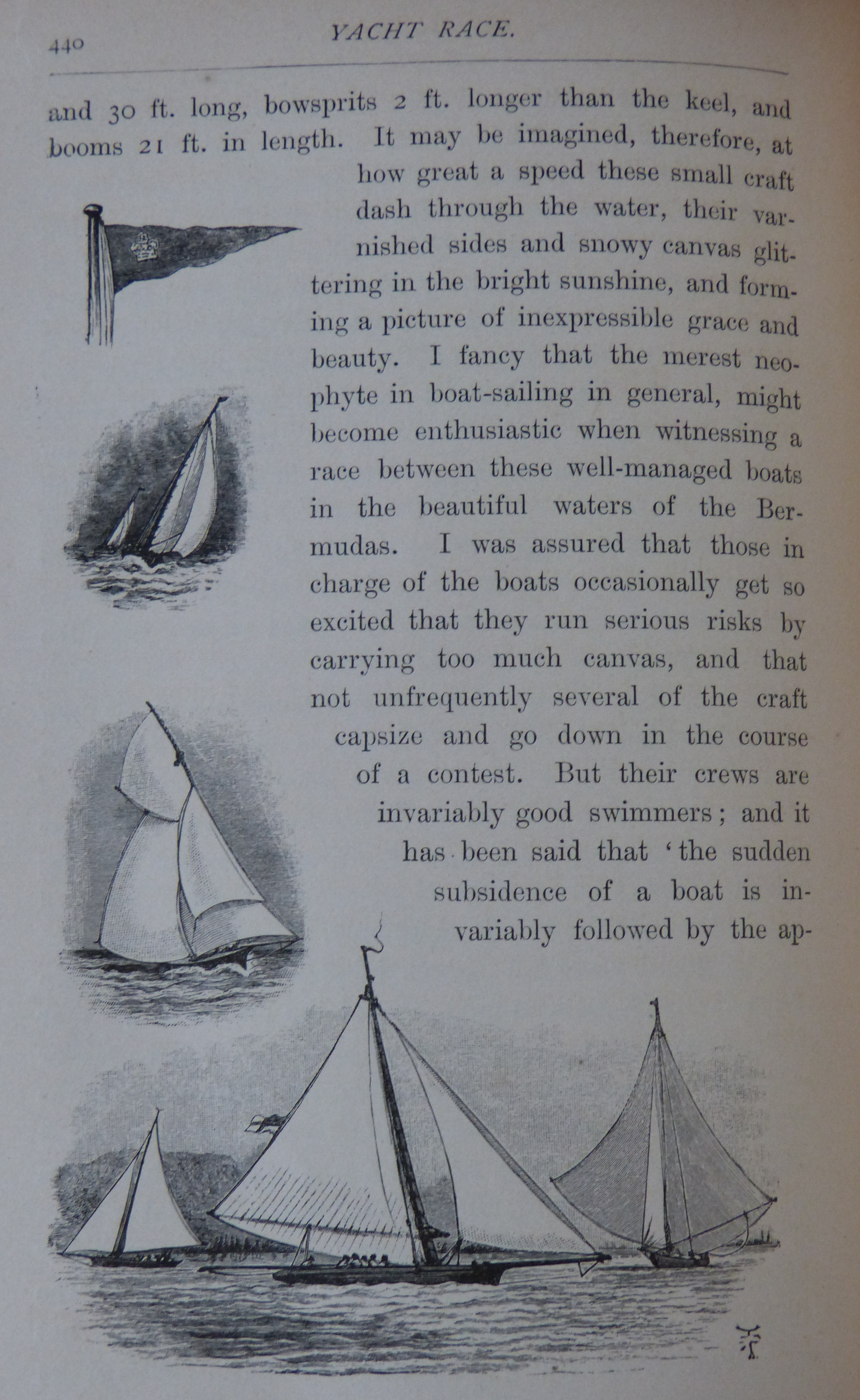 A page from "In The Trades, the Tropics and The Roaring Forties", by Anna Brassey, Baroness Brassey, with illustrations engraved on wood by G. Pearson and J. Cooper after drawings by R. T. Pritchett. First published by Longmans, Green, and Company, London, and H. Holt and Company, New York (1885). The page concerns sail racing in Bermuda, with illustrations of Bermudian boats carrying Bermuda rig.